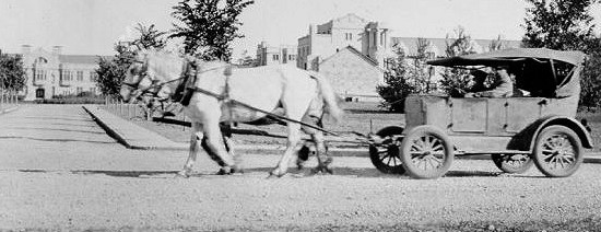 A Bennett Buggy, 1935 Lua error in Module:Autotranslate at line 72: No fallback page found for autotranslate (base=Template:University of Saskatchewan Archives, lang=en).